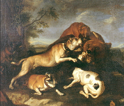 a painting of a bear baiting by dogs from the 1600s